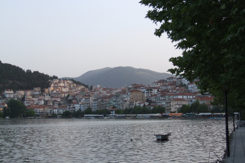 view to Kastoria, Greece